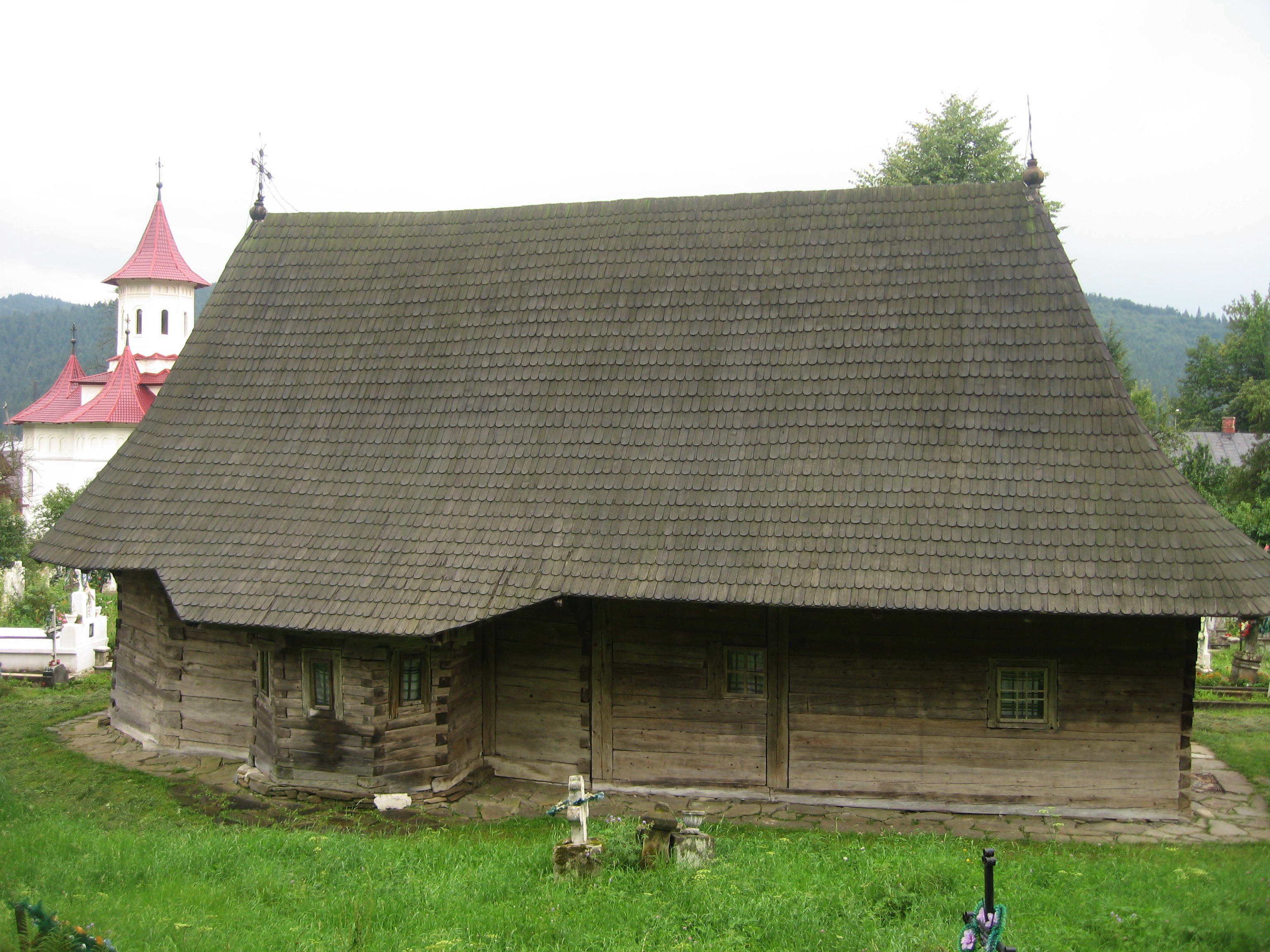 Wooden church of Putna